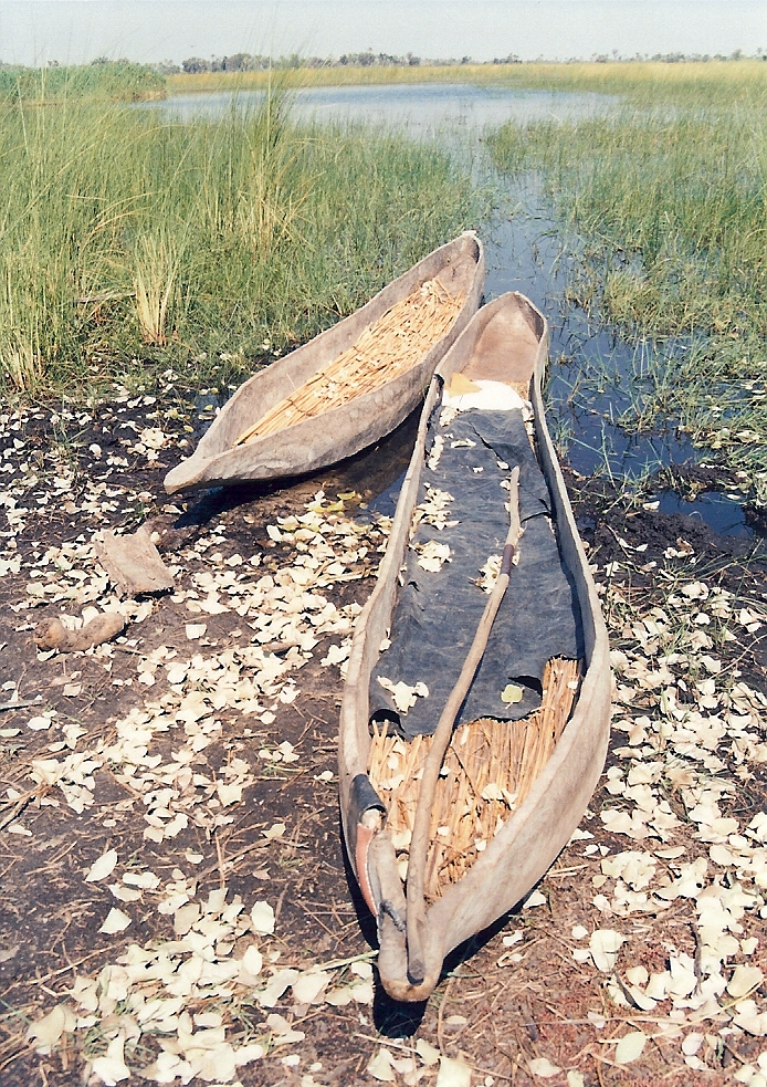 Wooden makoros in the Okavango Delta, Botswana. The right hand boat has been patched with rubber from a tyre inner tube. Taken in 1995, probably on Fujifilm.